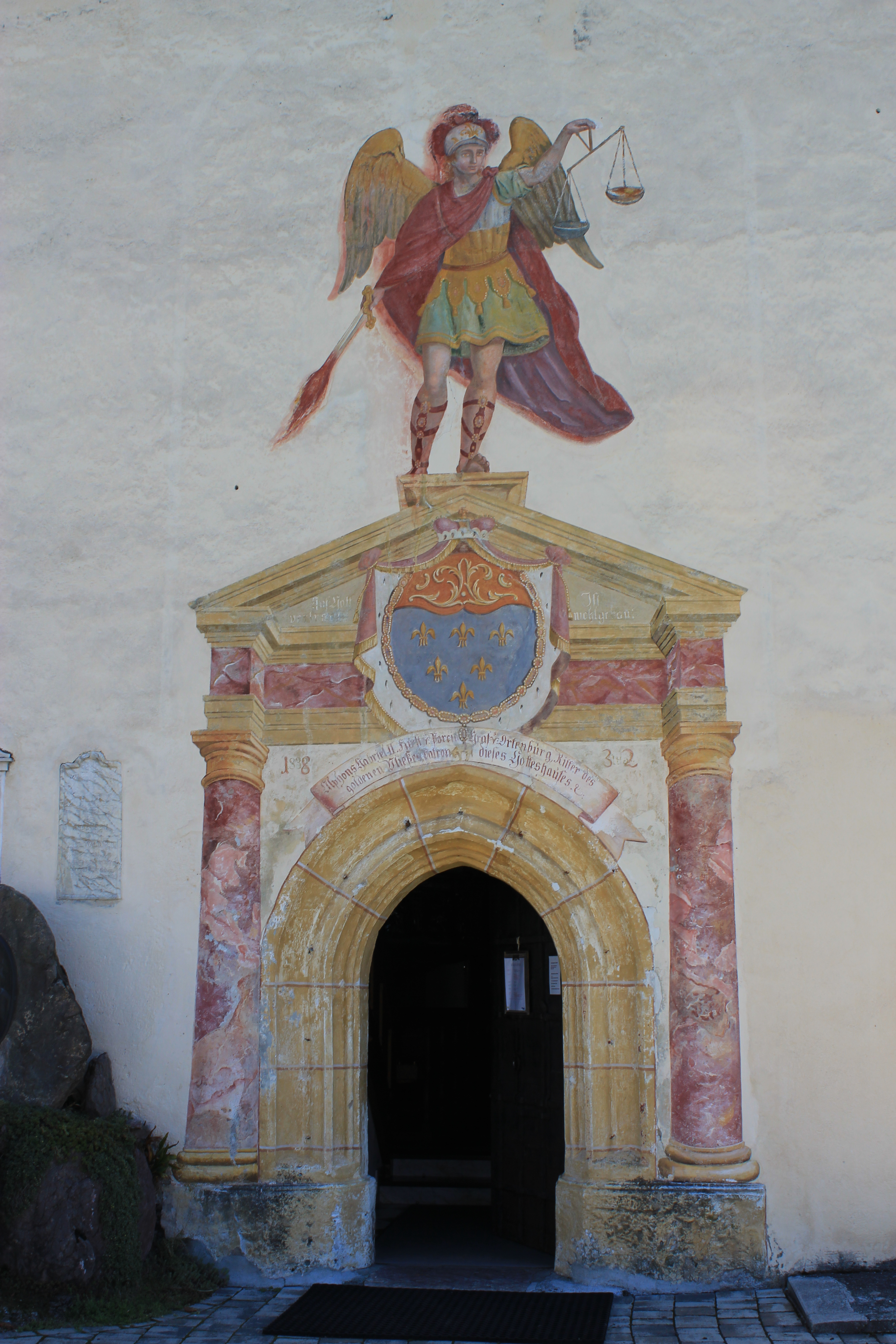 Parish church in Grafendorf in the community of Kirchbach